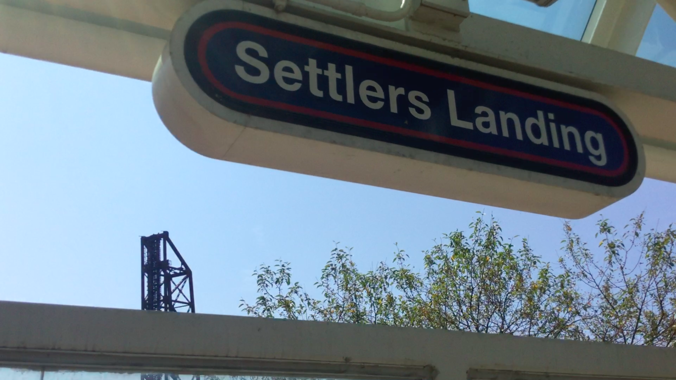 RTA Settlers Landing station